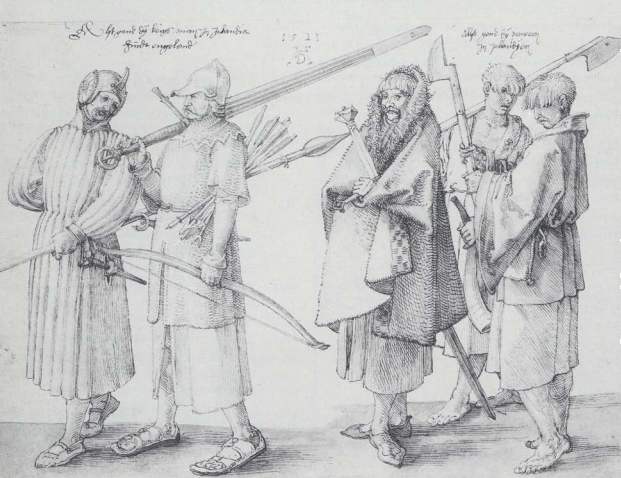 A drawing of Irish soldiers by Albrecht Dürer, 1521. Original caption: Also gand dy krigsman in Irlandia hindr engeland / Allso gend dy pawern in Irlandyen / 1521 / AD Caption by Heath (1993): "... Clearly the front two figures represent galloglasses while the others are their servants or kern."